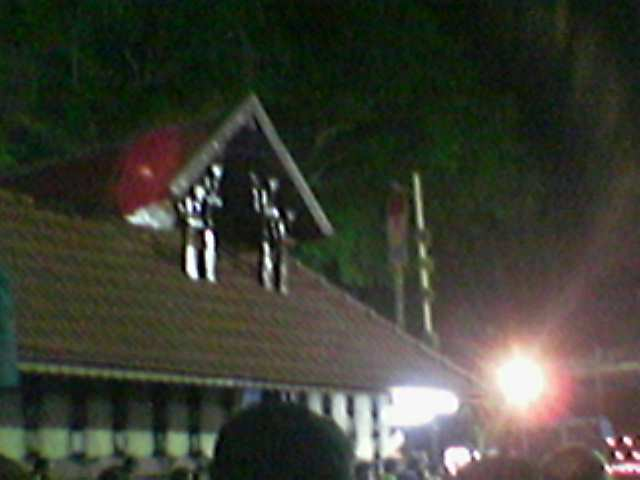 Avanavanchery temple at night, taken during the temple festivel at night by a mobil phone